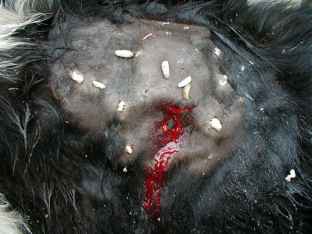 removed subcutaneous larvae of Hypoderma (massive infestation)